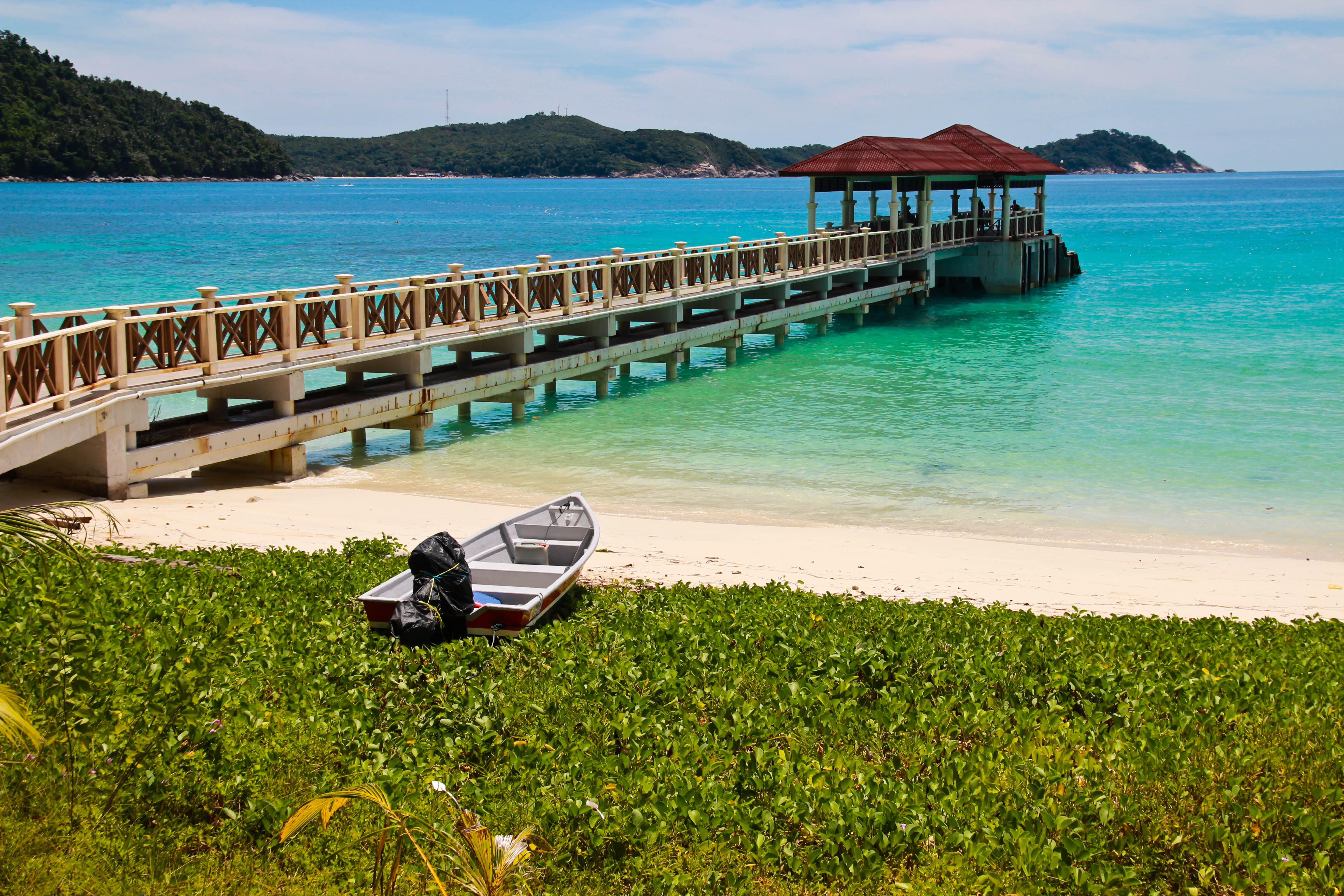 Perhentian Islands